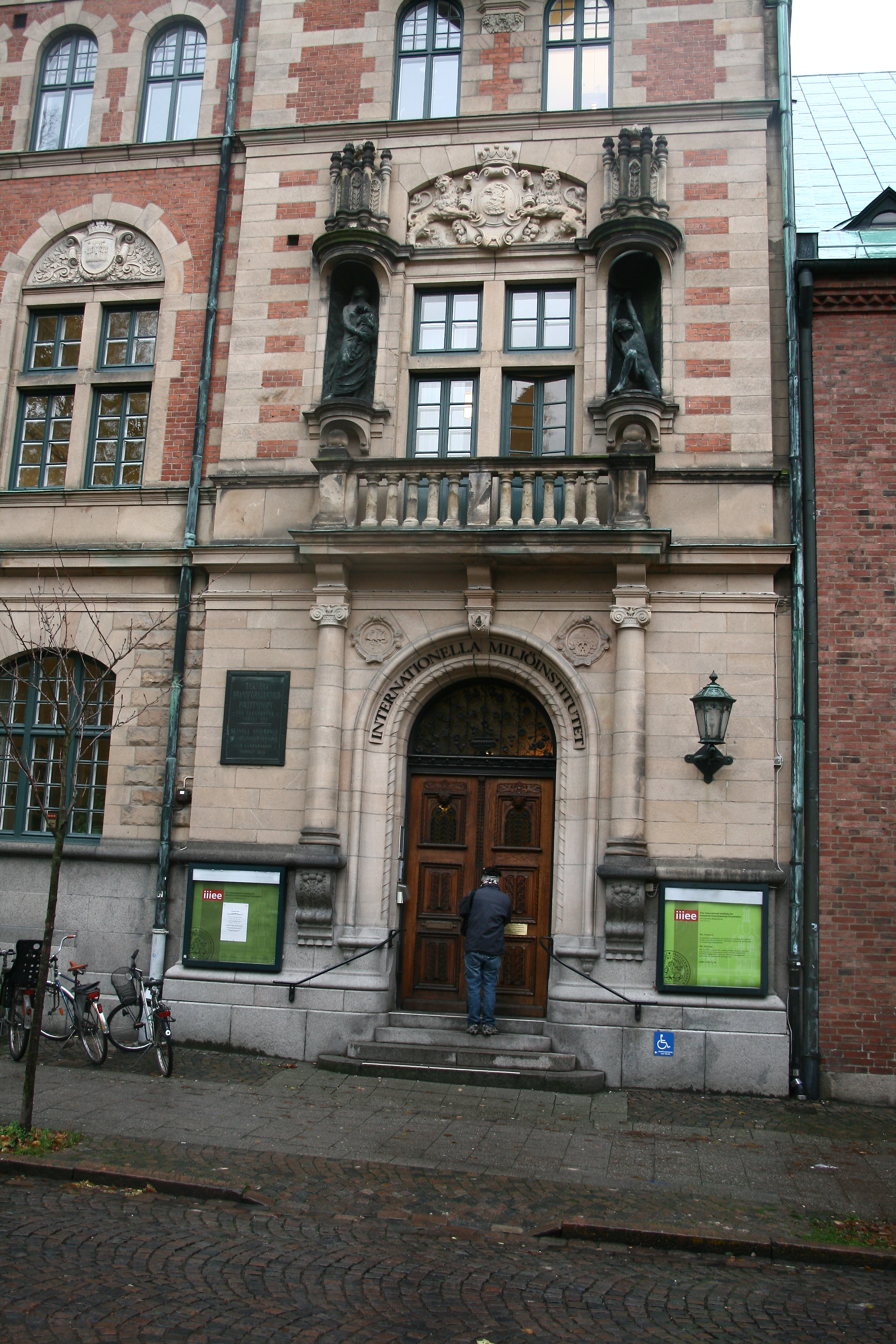 Internationella Miljöinstitutet (International Institute for Industrial Environmental Economics), Lund University, Lund, Sweden.